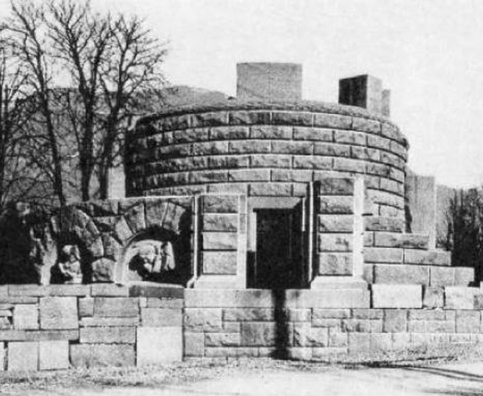 Kaiserjäger monument to war dead, built in 1917 and demolished 1920 to make way for the Victory Monument in Bolzano